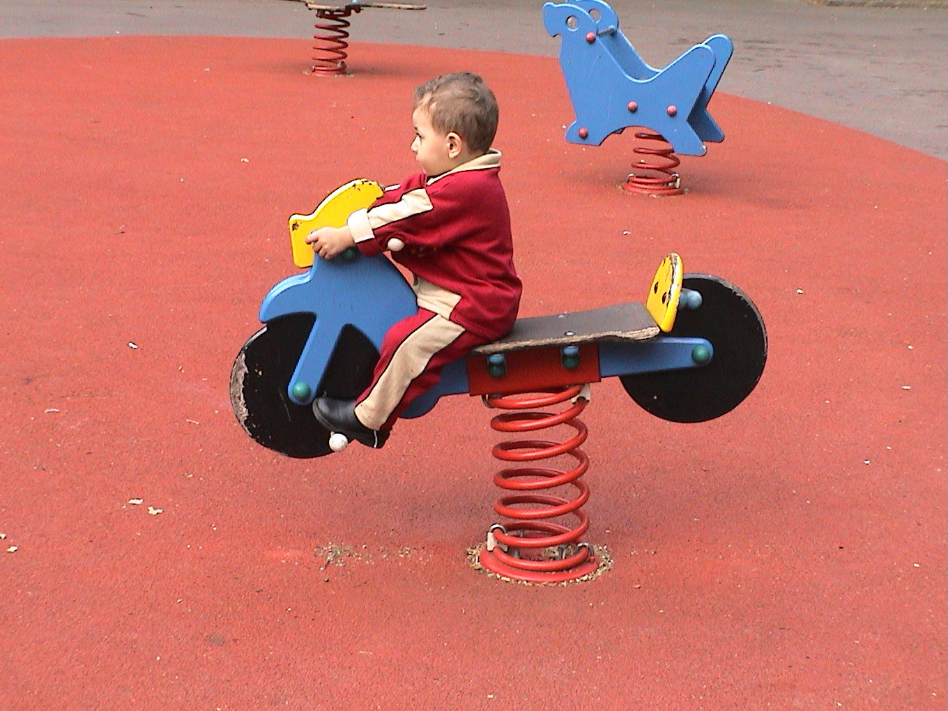 playing yard rue d`Isly Lille France